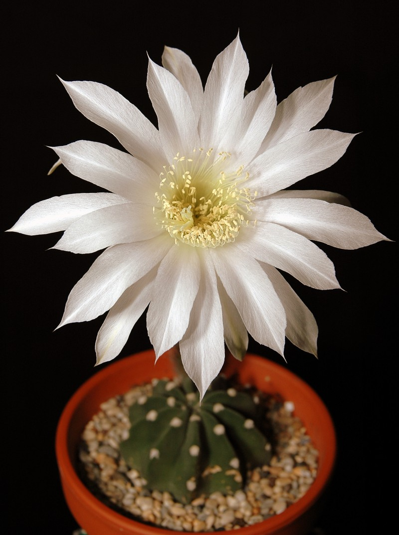 Night blooming houseplant flowering just one night.